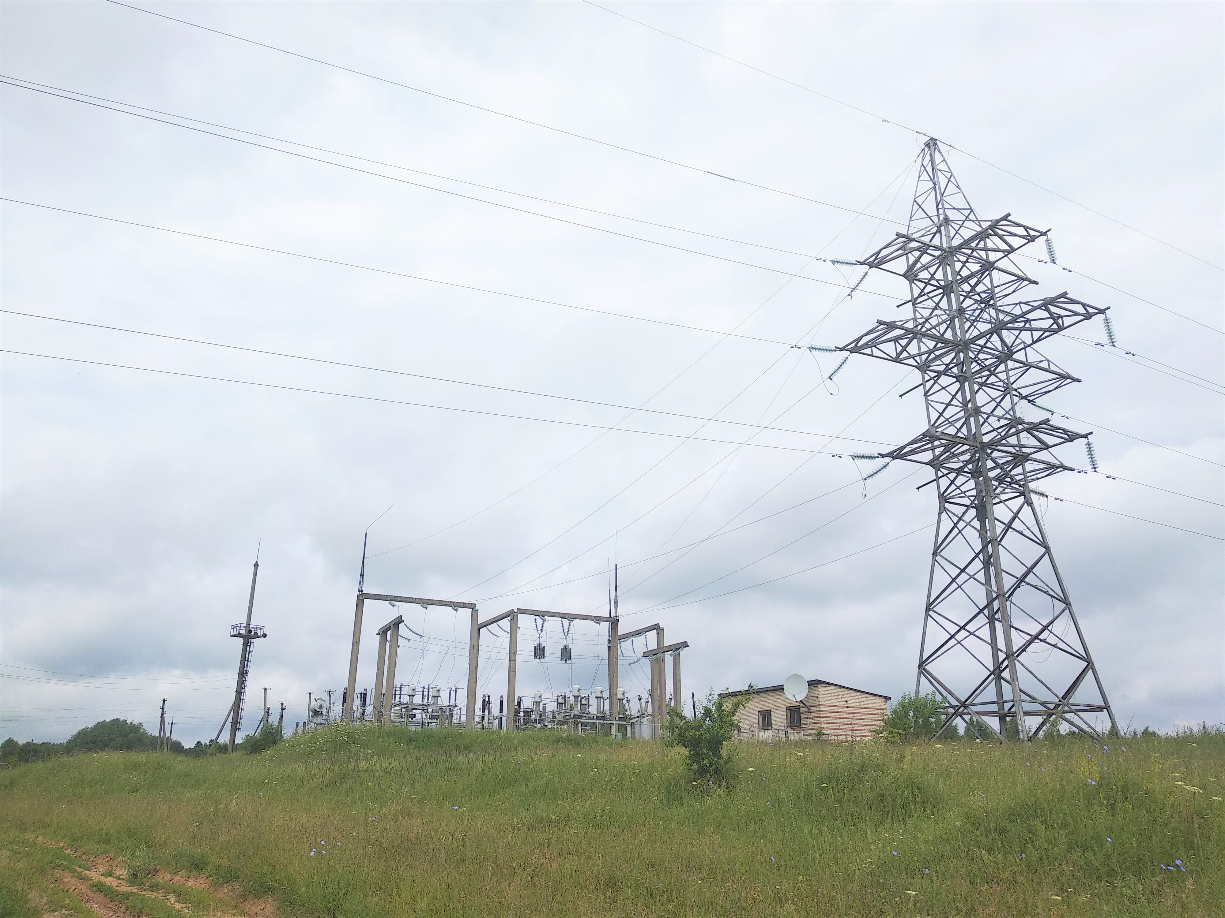 Shurskol electric power plant (station)